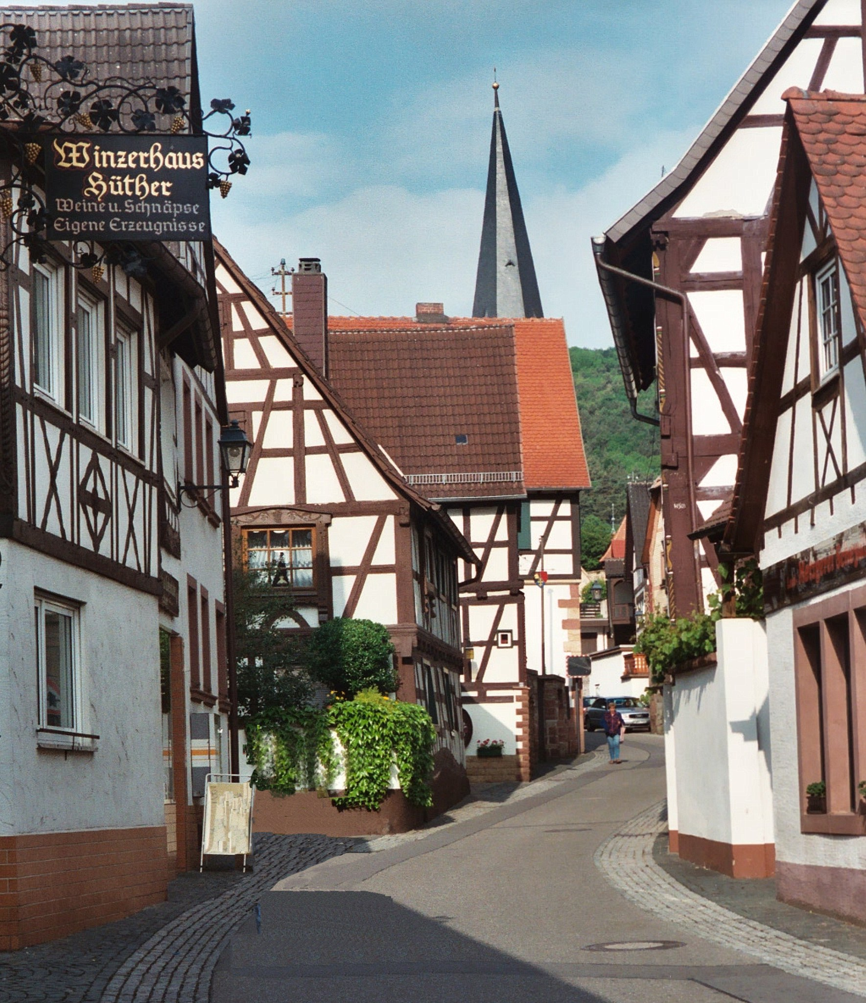 Dörrenbach, the Hauptstraße